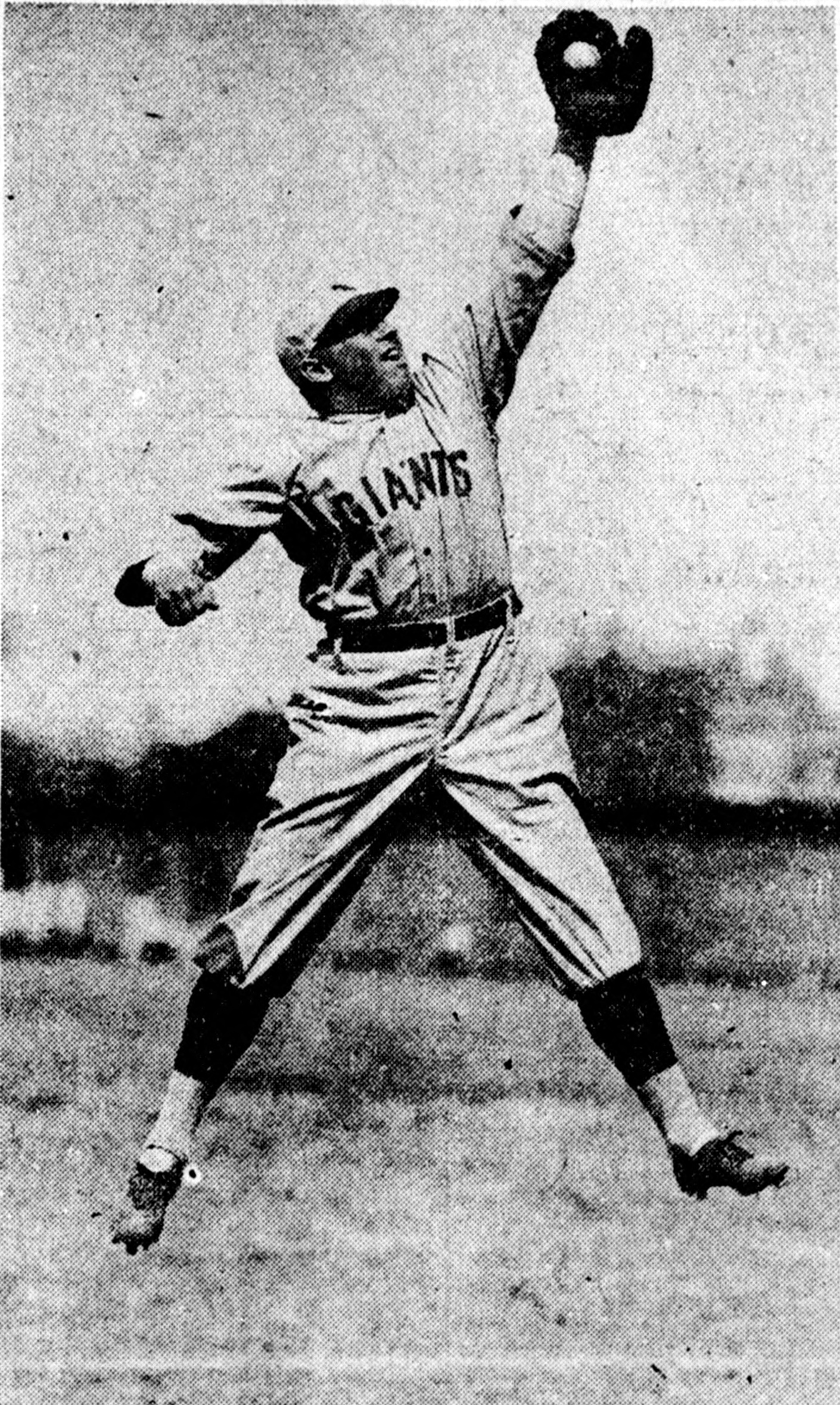 Ross Youngs (incorrectly, I assumed, listed as "Ross Young" in the contemporary newspaper)